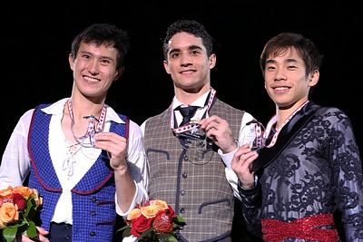 The men's podium at the 2012 Skate Canada International. From left: Patrick Chan (2nd), Javier Fernandez (1st), Nobunari Oda (3rd)